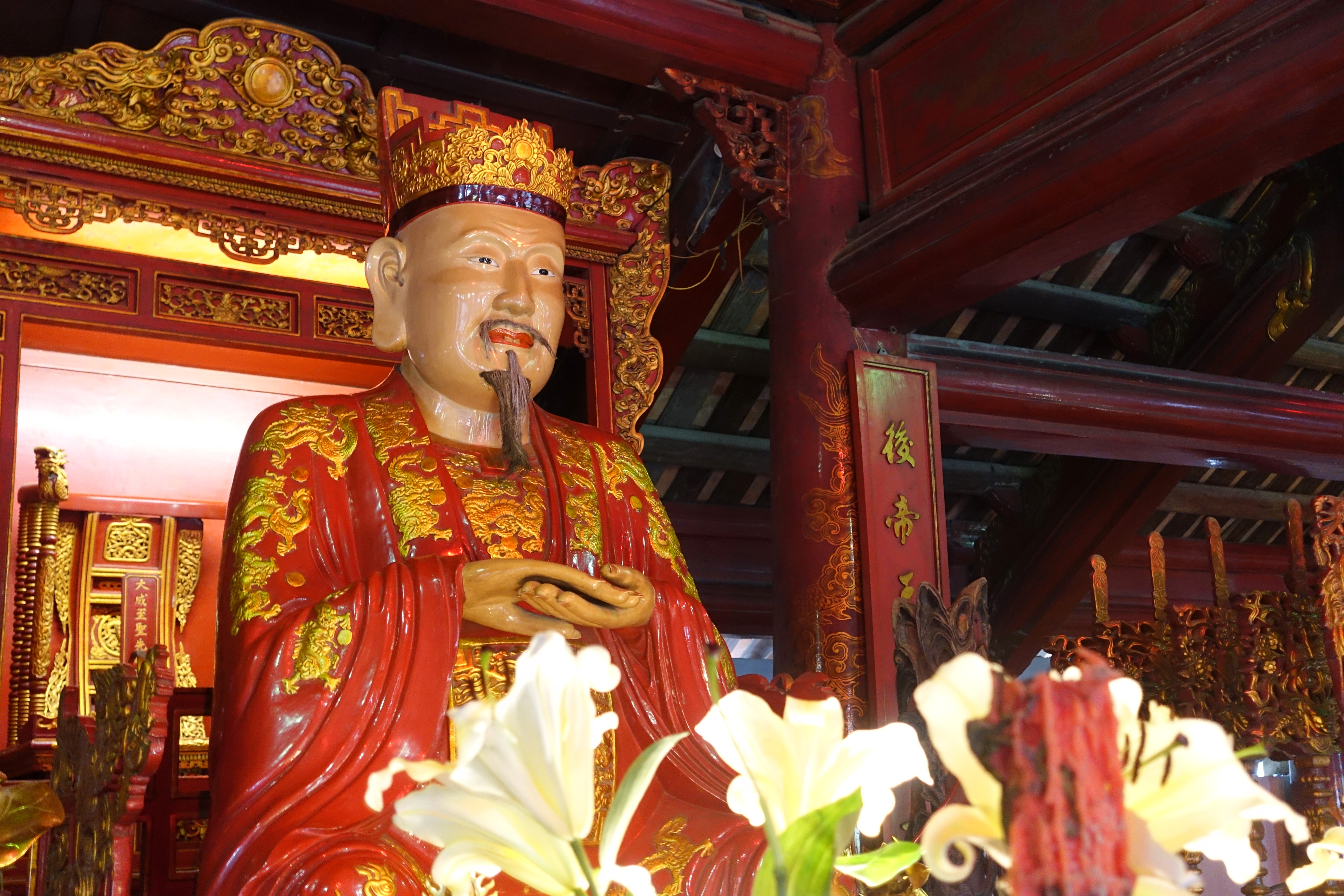 Altar to Confucius - Temple of Literature, Hanoi, Vietnam.